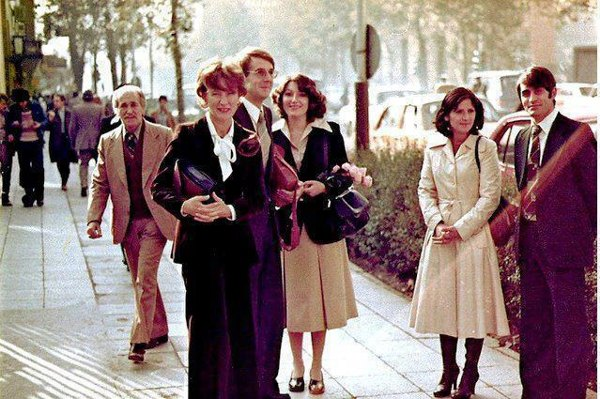 Tabriz Shahnaz St.